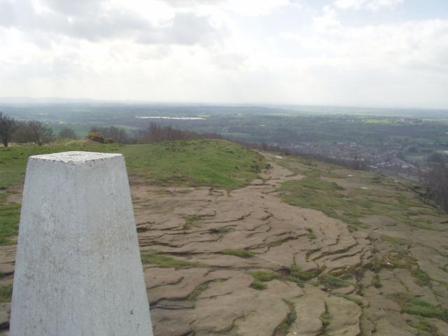 Helsby Hill The picture was taking while logging the trigpoint in the picture and a nearby Geocache.